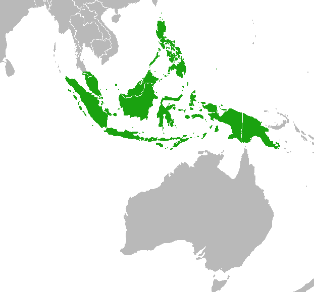 Map of Malesian floristic region.